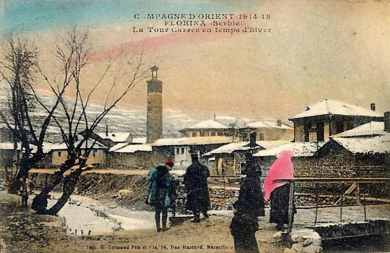 Florina Clock Tower